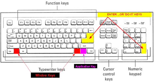 QWERTY Keyboard Taken from article on computer keyboards.